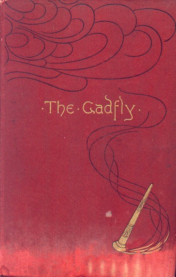 Cover of the first publication of E. L. Vojnich's novel «The Gadfly»